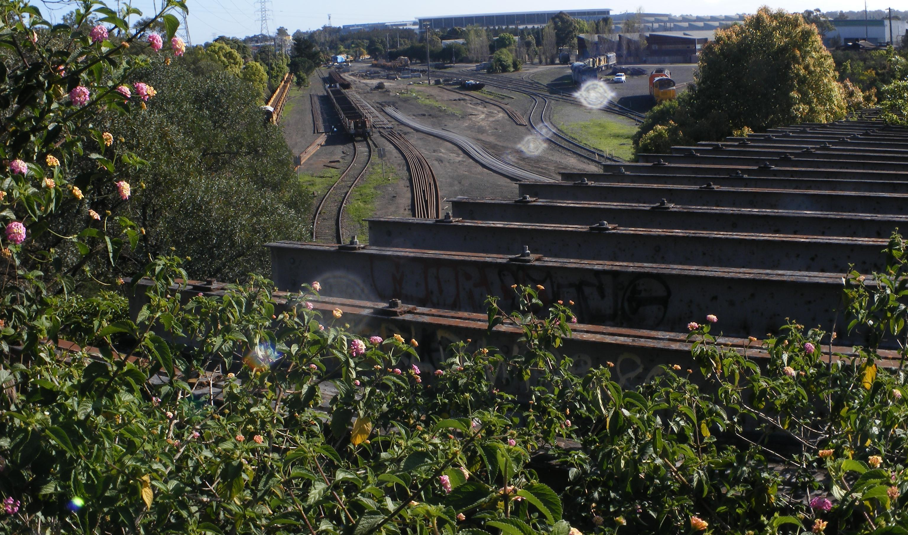 Chullora Railway Workshop